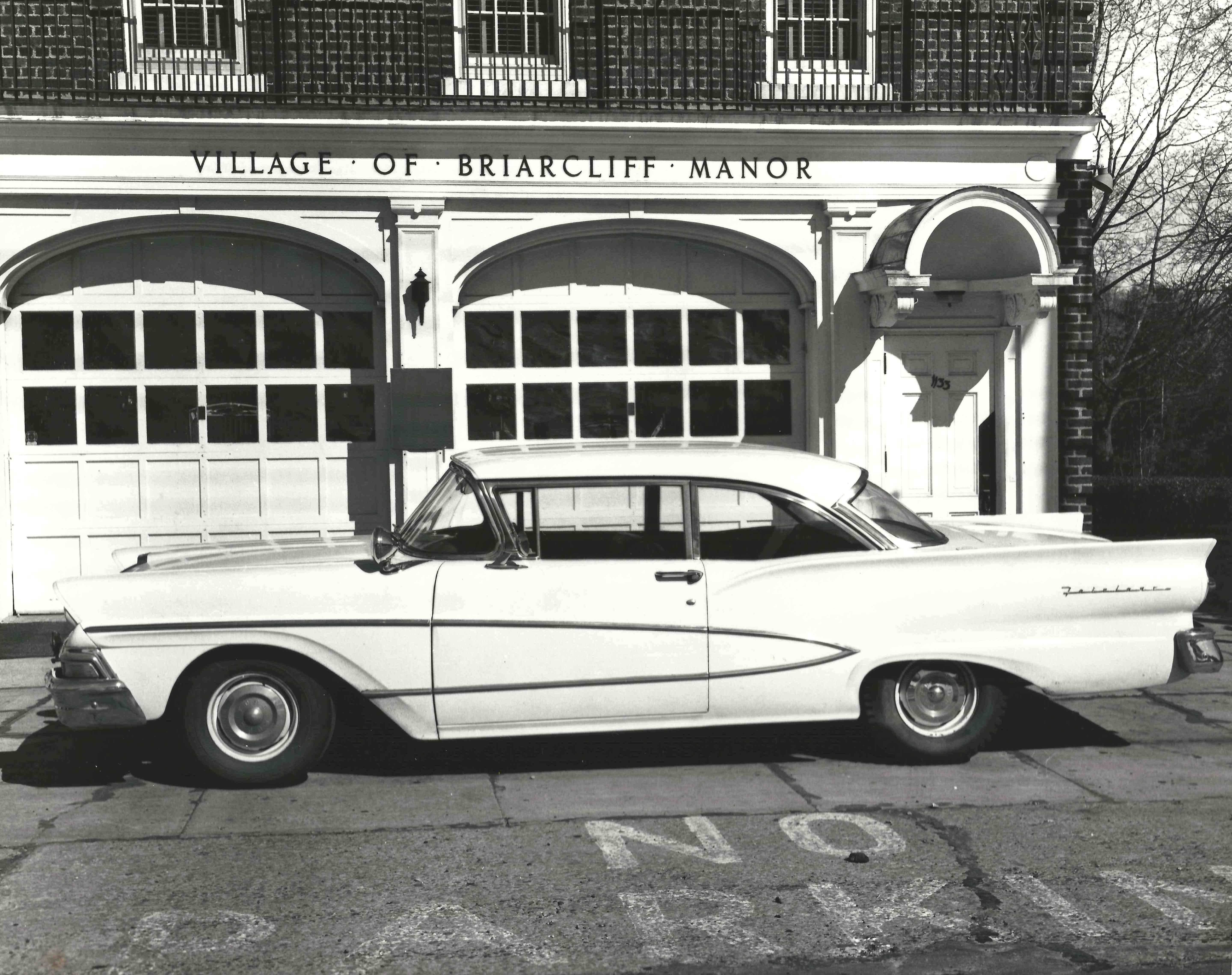 This is an image of a new Briarcliff Manor police cruiser in Briarcliff Manor, New York.